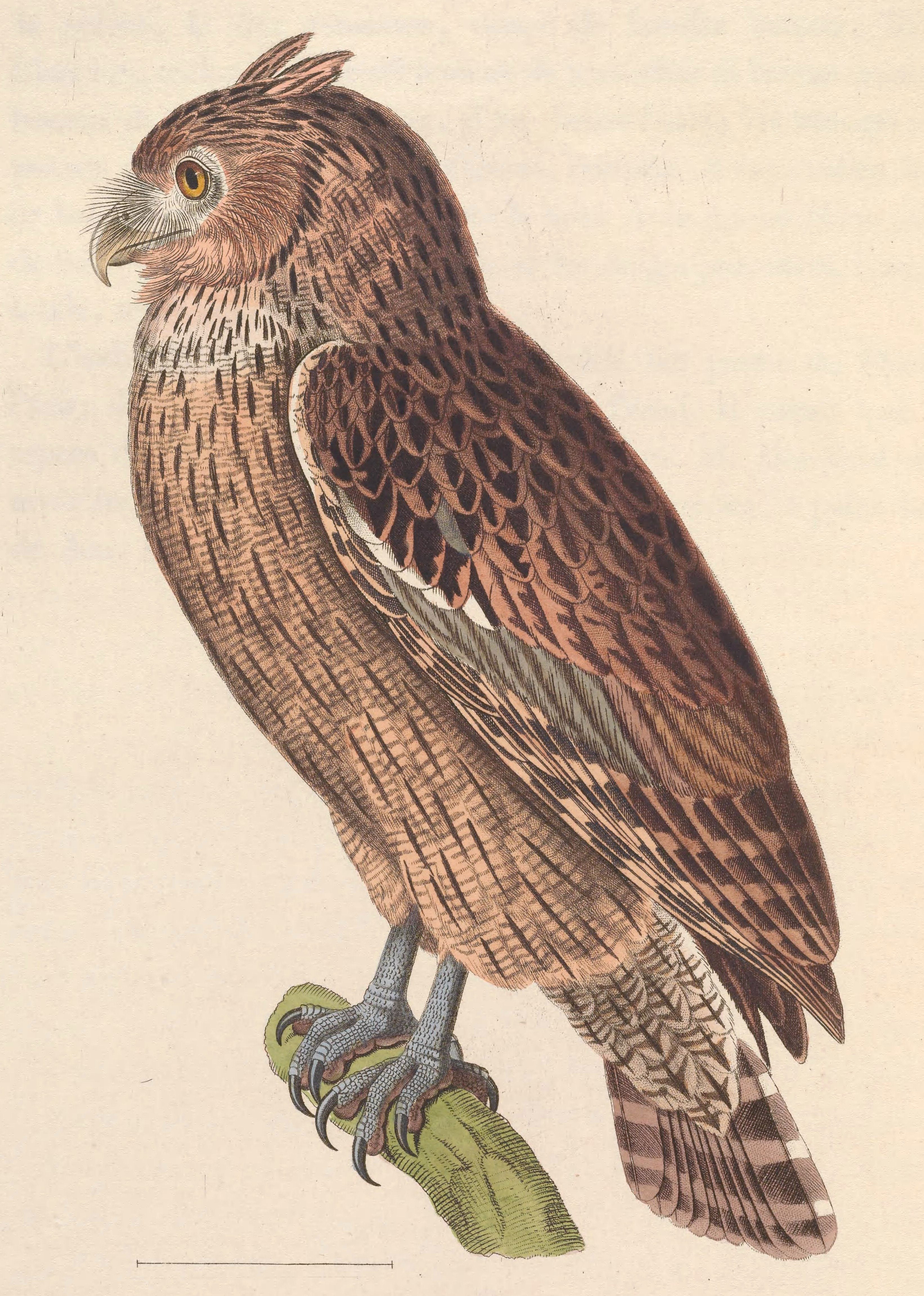 « Strix leschenaulti » = Ketupa zeylonensis leschenaultii (Subspecies of Brown Fish Owl)